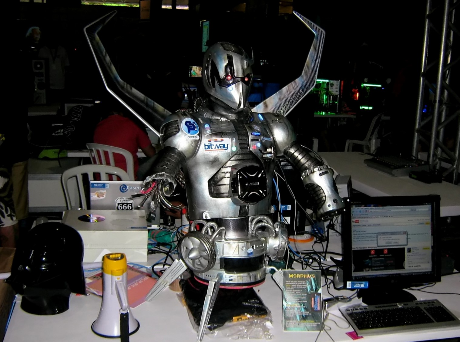 Casemod at Campus Party Brasil, 2009